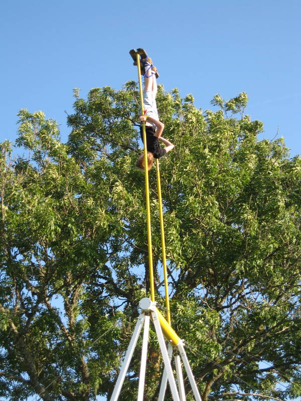 A man kiiking.